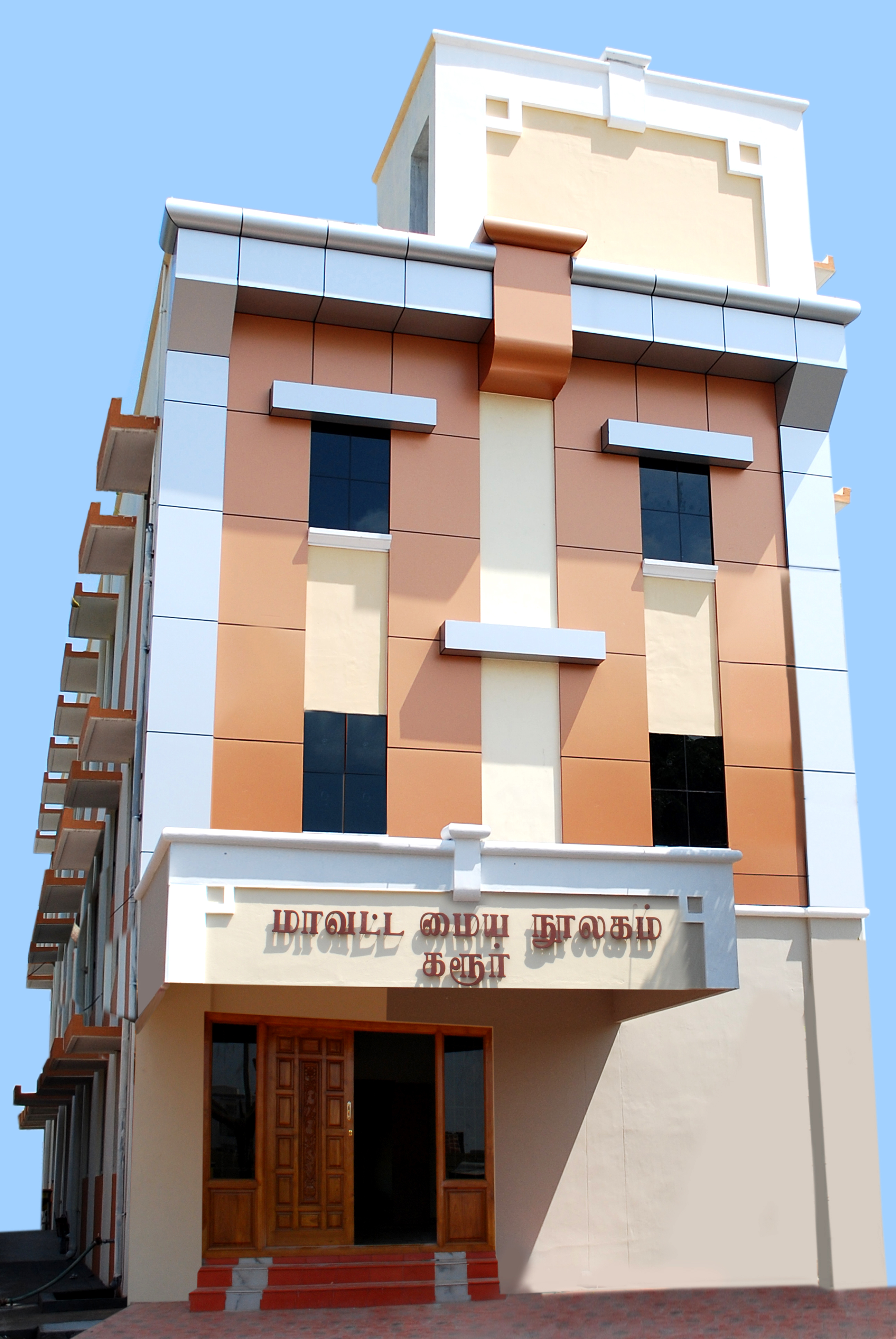 நூலக முகப்புத் தோற்றம்